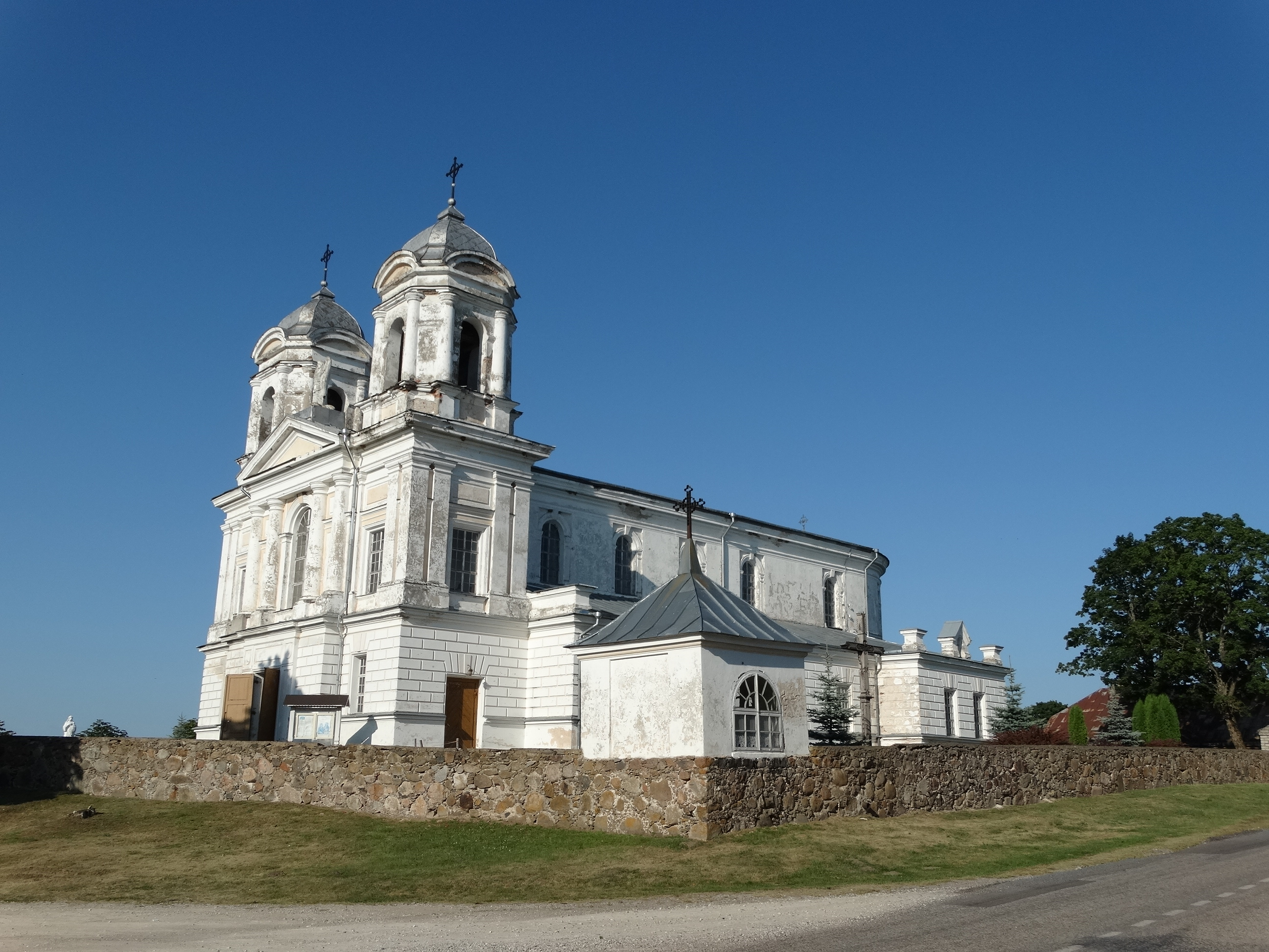 Church, Lyduokiai, Ukmergė district, Lithuania